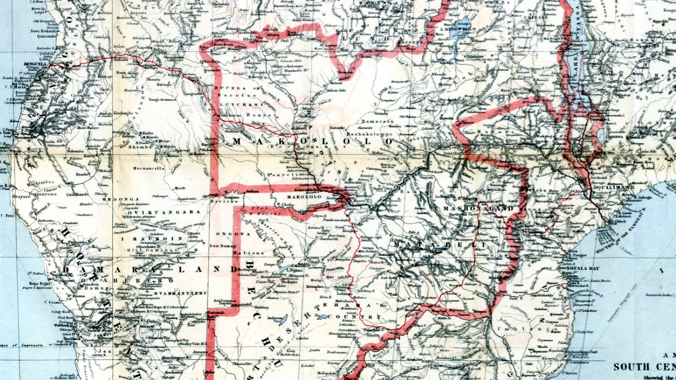 Dr James Johnston's thin red line across Africa 1891 to 1892